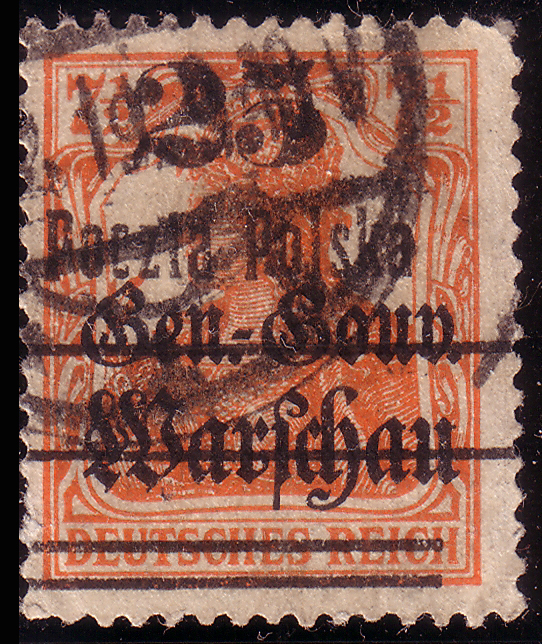 Postage stamp for General-gouvernment Warsaw (Poland) overprinted with Poczta Polska, 25 pfennigs, 1919